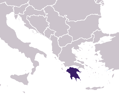 Location of Peloponnese in the Balkans